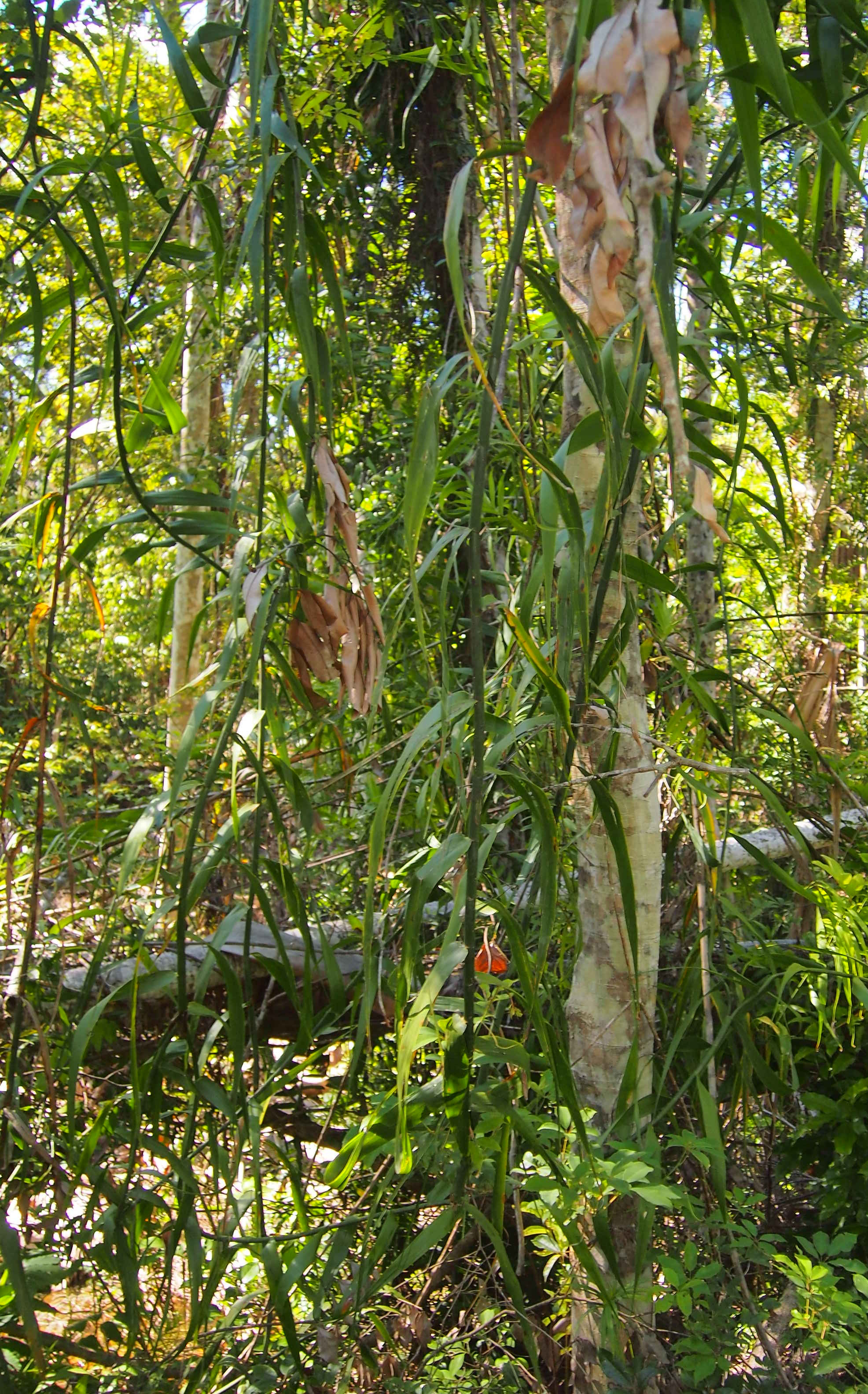 Flagellaria indica